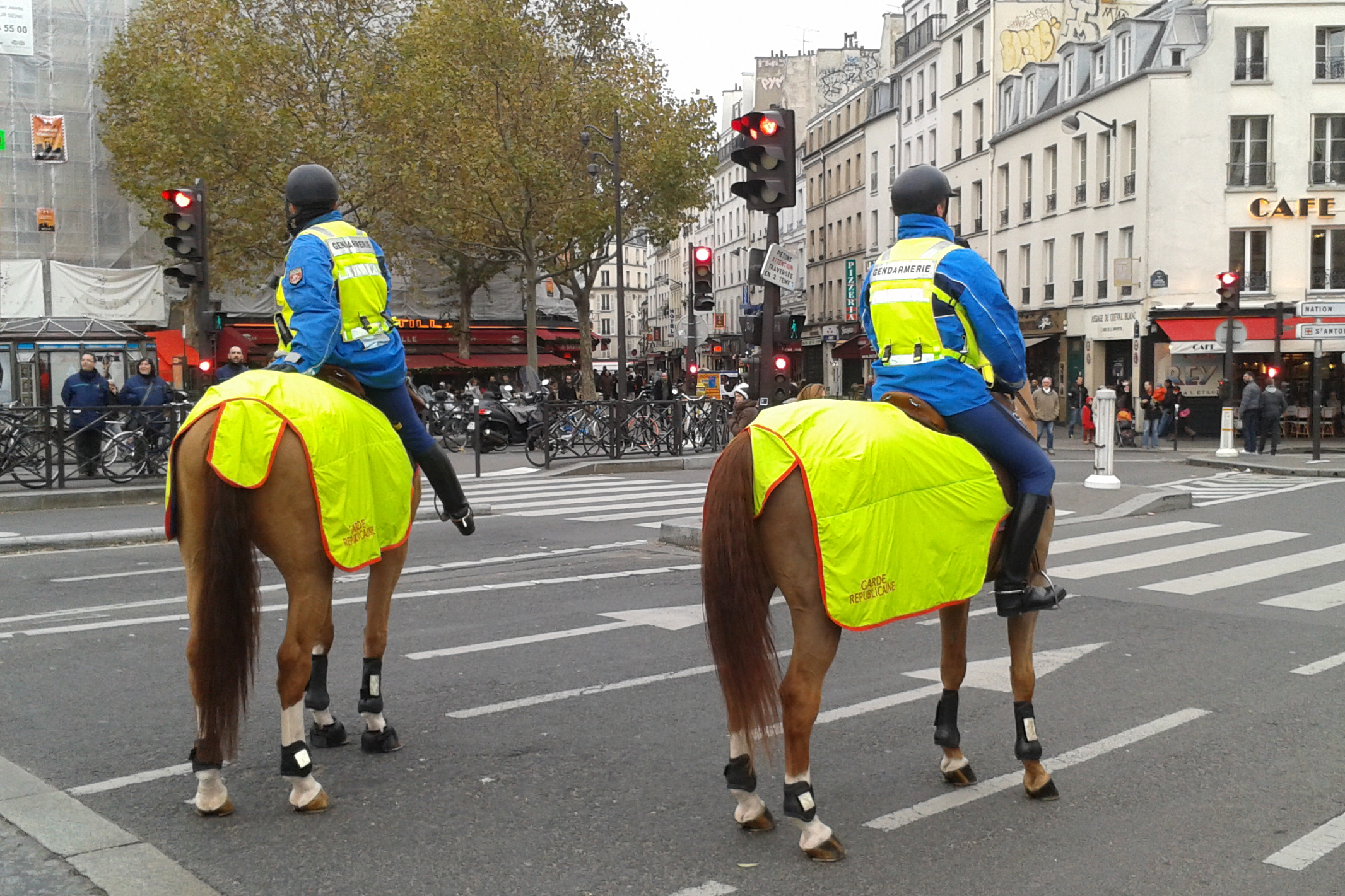 French Garde républicaine riders escorting a demonstration in Paris.